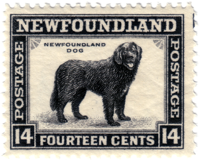 Newfoundland Dog Stamp, Newfoundland, Canada